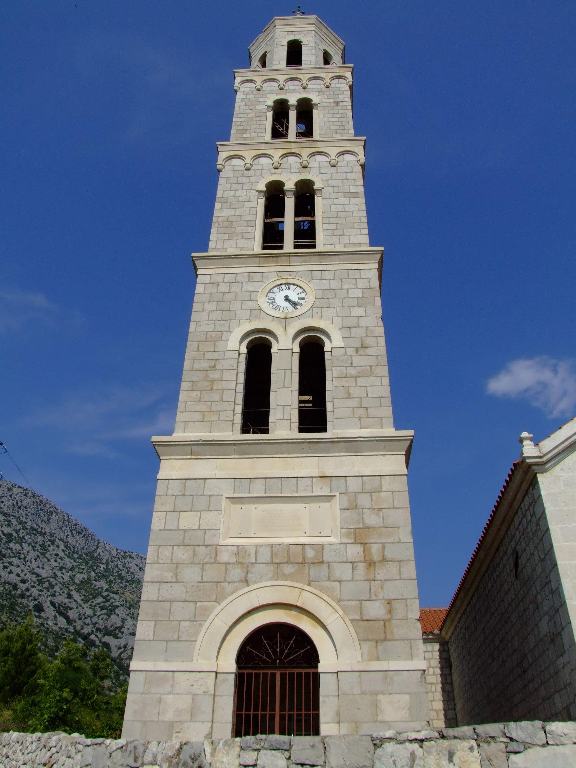 Church building of St. Michael in Igrane, Croatia. Author, user:P.ledr, published the image on cswiki as double licensed. Pavel Vozenilek has compressed it to reduce size from 1MB.